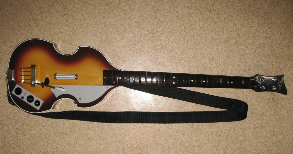 Hofner bass guitar controller for the video game The Beatles: Rock Band